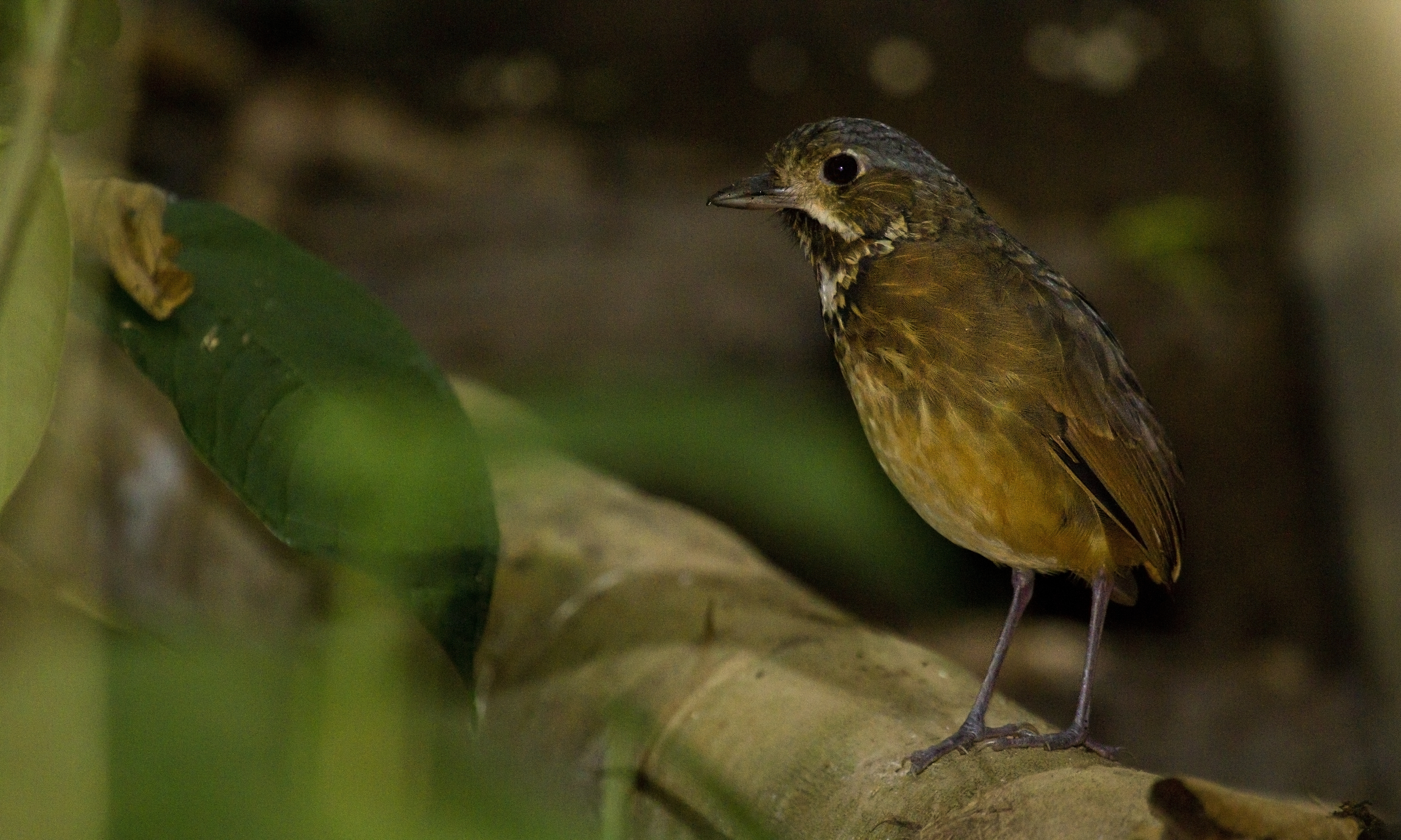 Scaled Antpitta, Bioparque Bonita Farm, Dosquebradas, Risaralda, Colombia